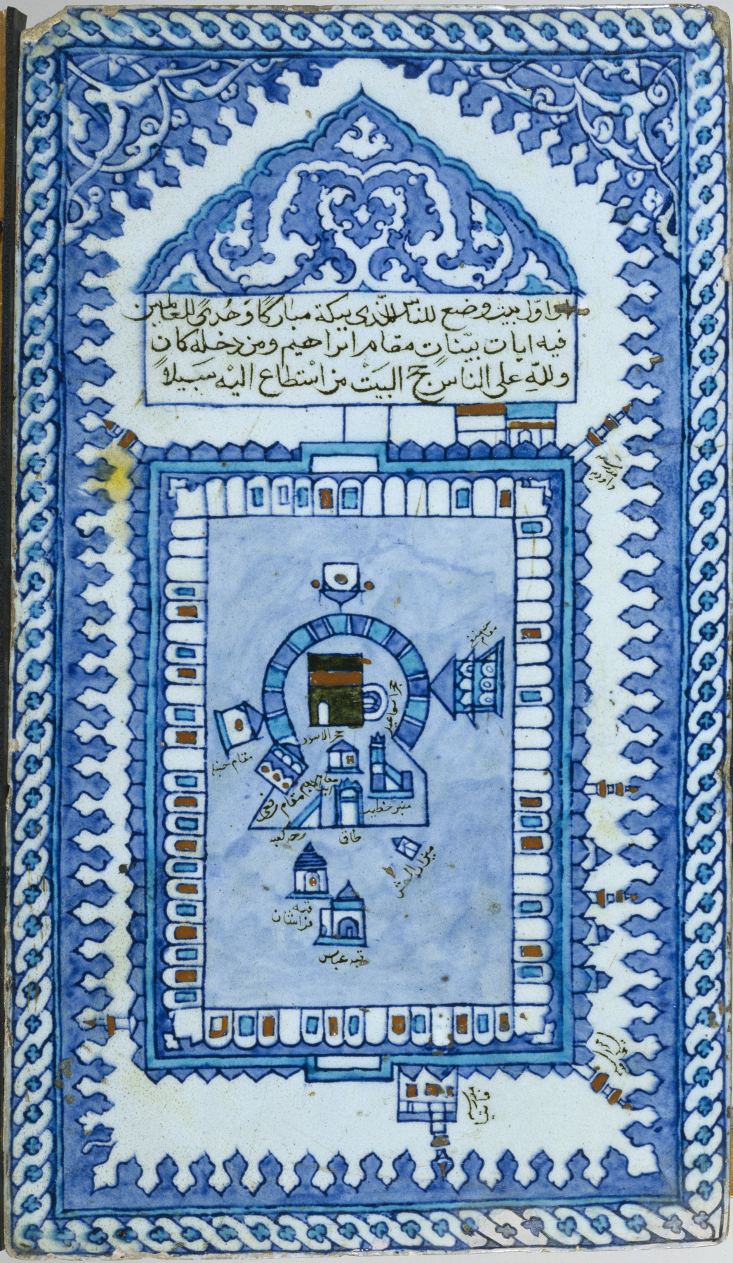 The three lines of Arabic writing in the upper part of this large, ceramic wall tile are from the third chapter of the Qur'an, and exhort the Muslim faithful to make the pilgrimmage to Mecca. The rest of the tile is given over to a bird's-eye representation of the Great Mosque in Mecca, with the Ka'ba, Islam's holiest shrine, in the center surrounded by various other structures, all identified in Arabic, and a rectangular portico around the courtyard. Such tiles may have been created to remind Muslims of their obligation to make the pilgrimage and to introduce potential hajji, or pilgrims, to the places and practices they would encounter in Mecca. The plaques also may have been intended for commemoration and contemplation following a hajji's experience at the Ka'ba.